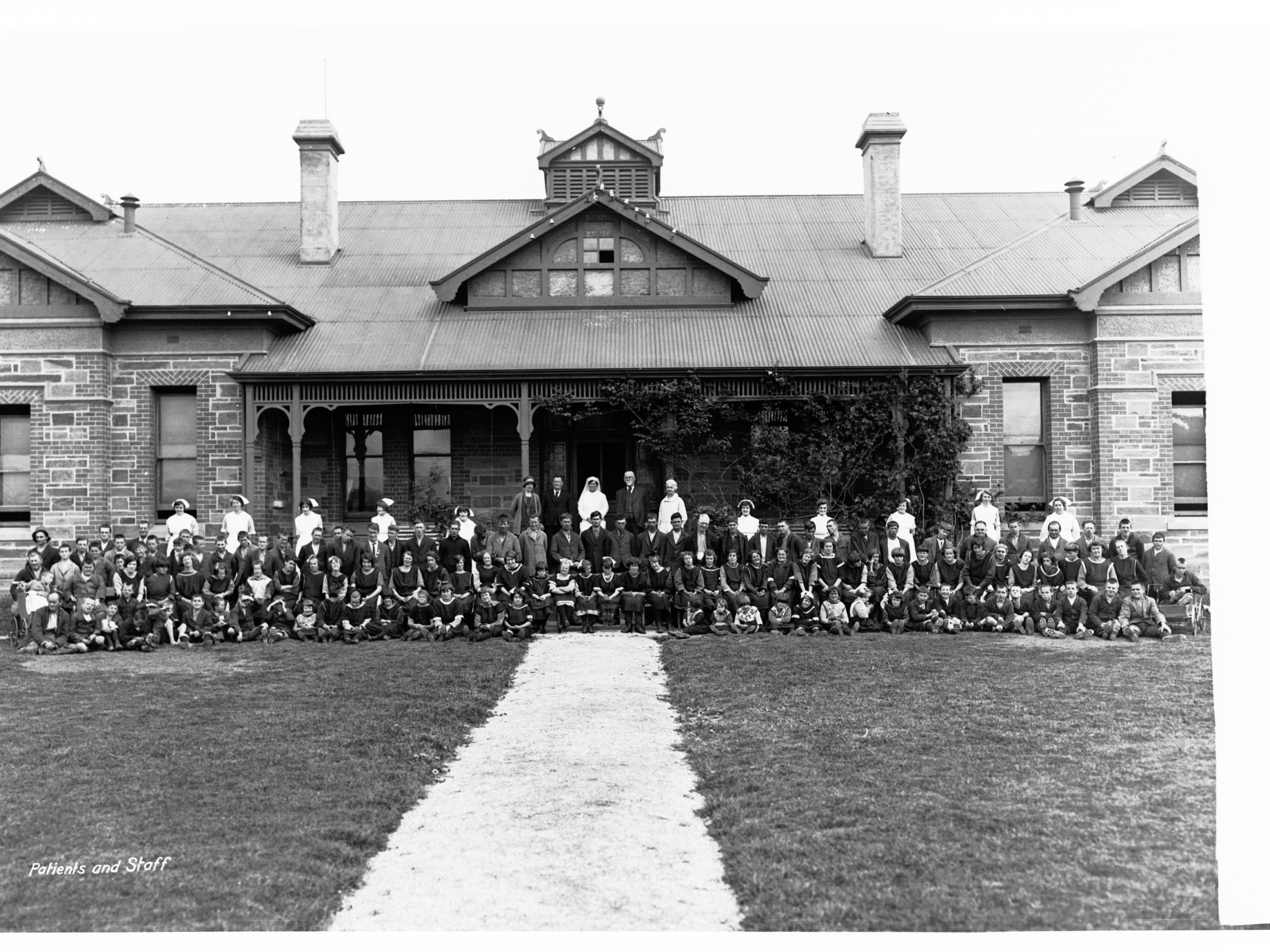 This is an image of staff and patients outside of the Brighton Minda Home in South Australia.